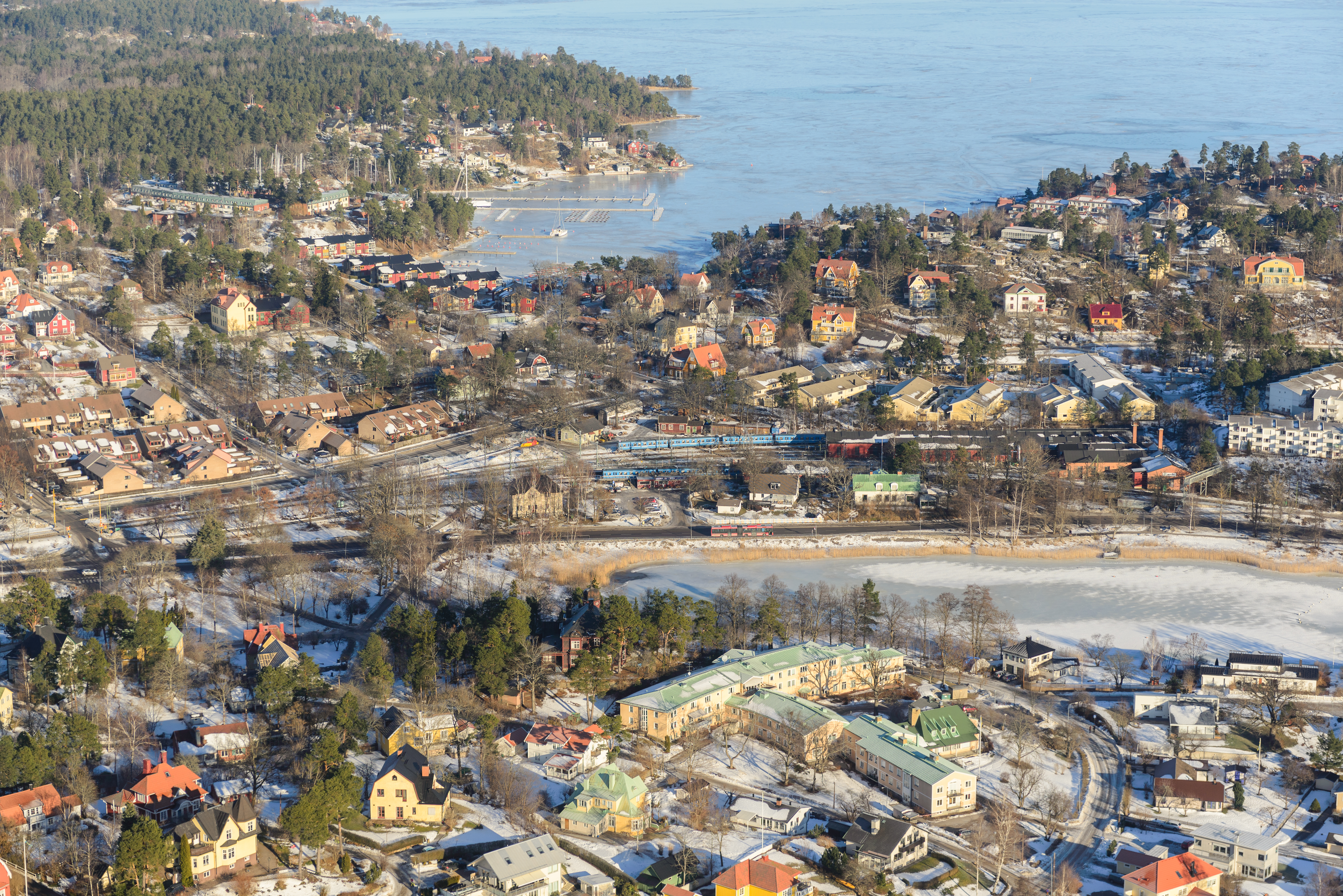 Neglinge